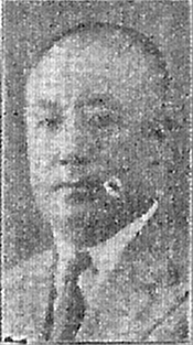 Wang Yunqing (Wang Yün-ch'ing) (1890 - 1954)